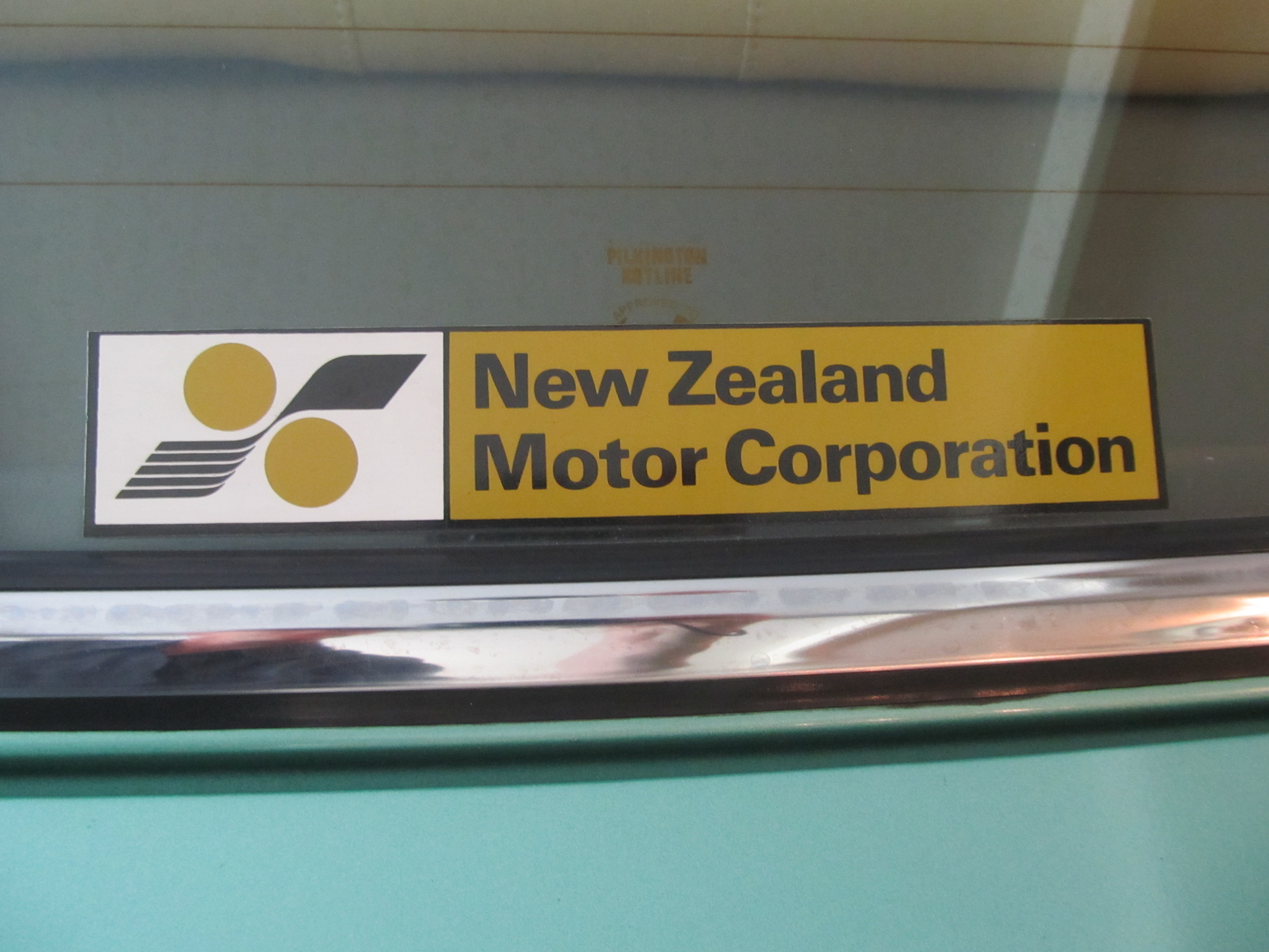 When did you last see one of these? Seen in the rear window of the Accord.